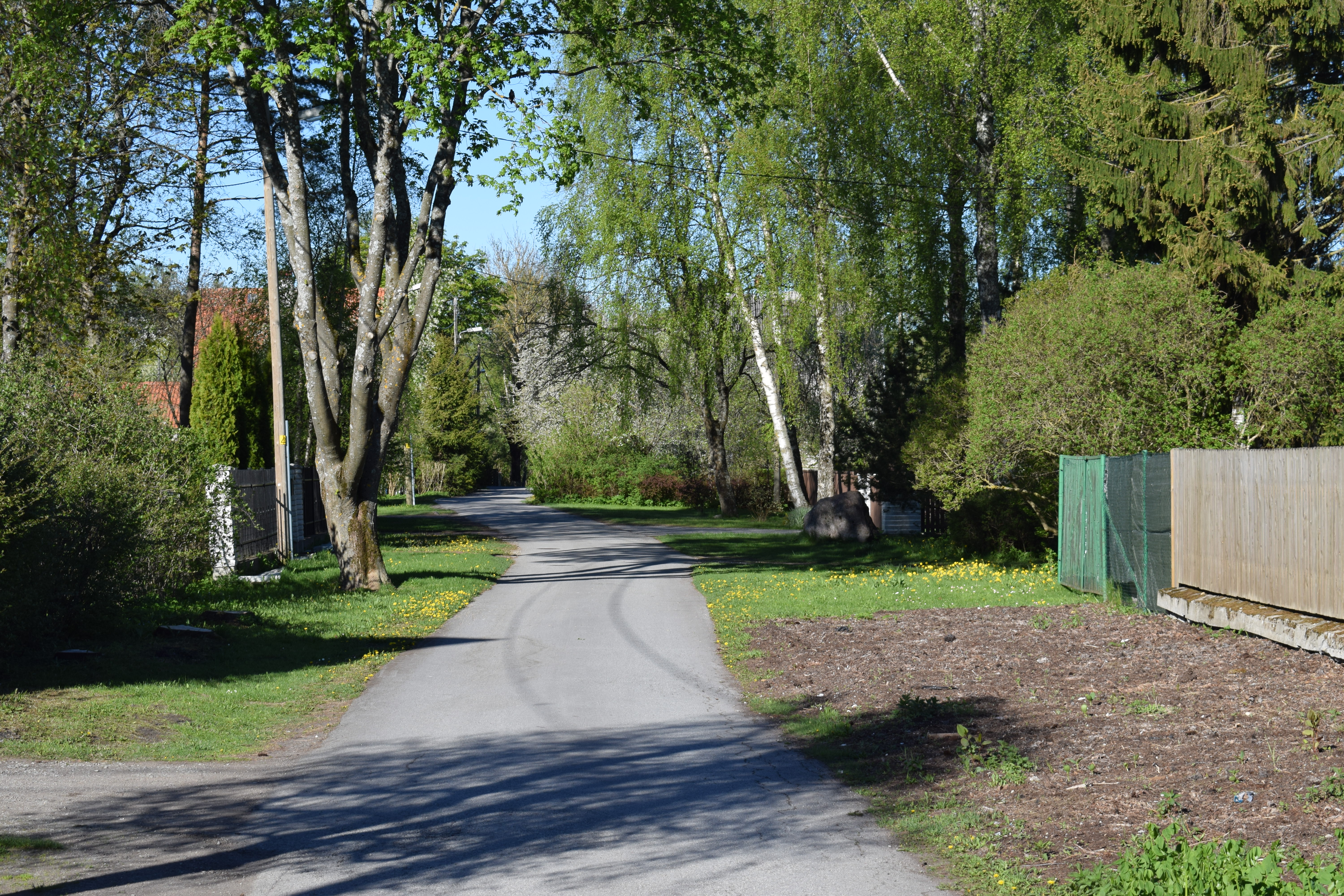 Niidu street